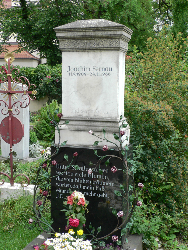 Tomb of Joachim Fernau on the cemetery of St. Georg in München-Bogenhausen